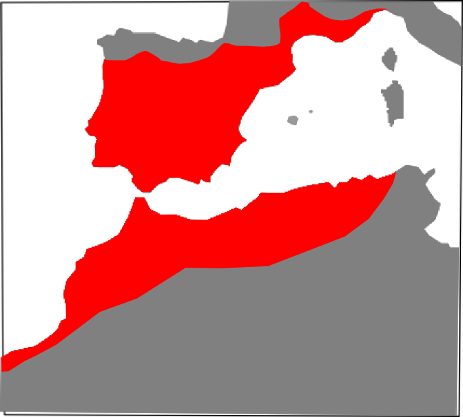 Malpolon monspessulanus range map.